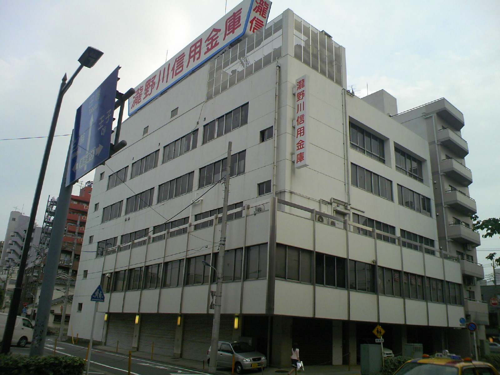 Takinogawa Shinkin-Bank Main Brunch.